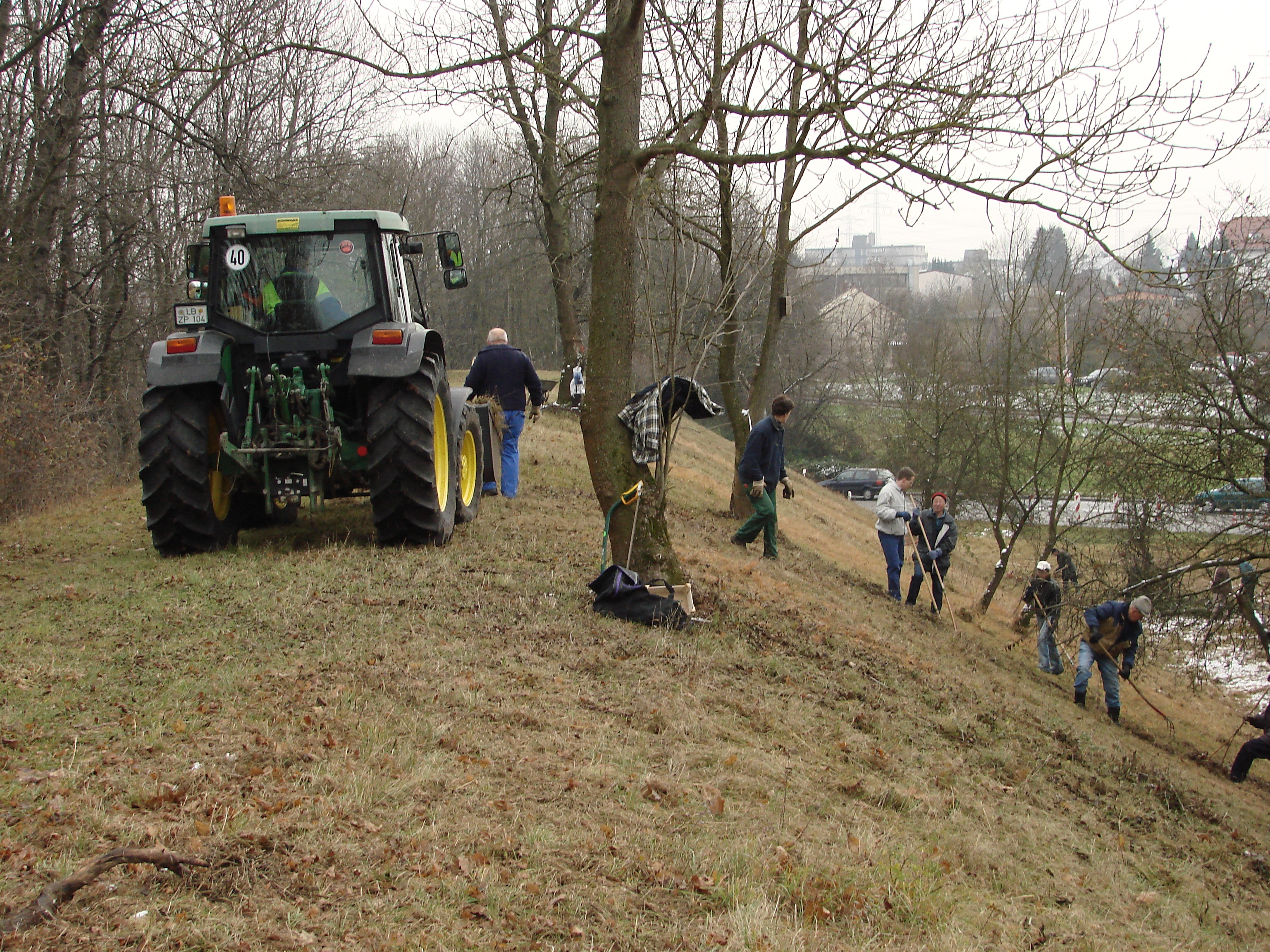 Freiberg am Neckar, volunteer action of landscape conservation on a former railroad embankment